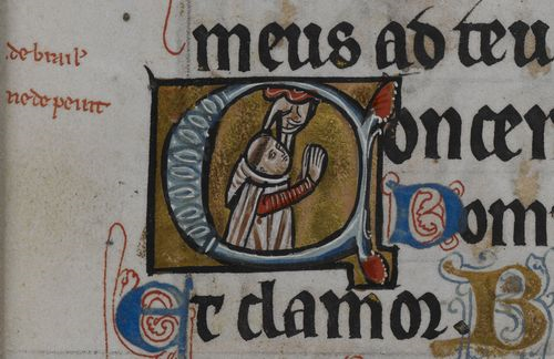 Historiated initial with a self-portrait of William de Brailes. Detail from the de Brailes Hours (Add MS 49999), f.43r. Held and digitised by the British Library